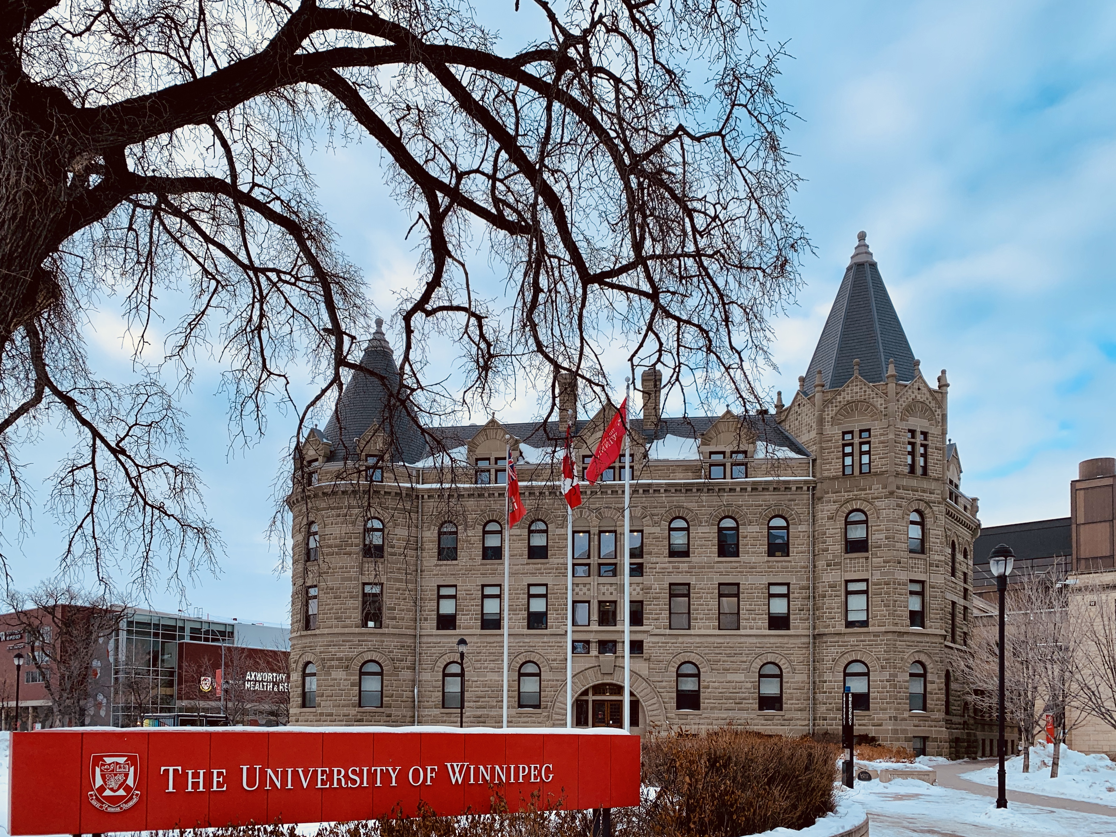 Front view of Wesley Hall at the University of Winnipeg Campus.